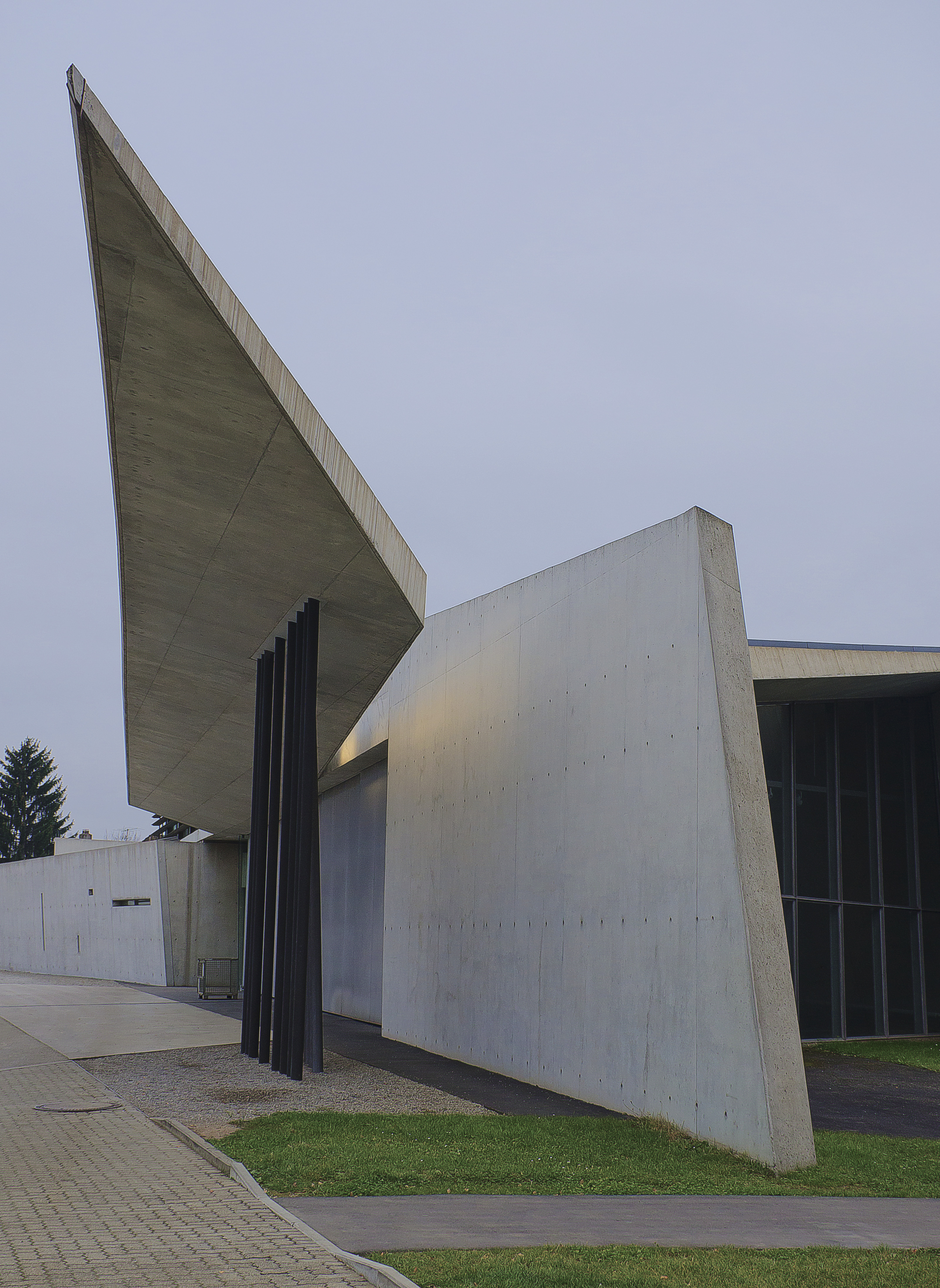 Fire station by Zaha Hadid, Vitra Campus, Weil am Rhein, Germany